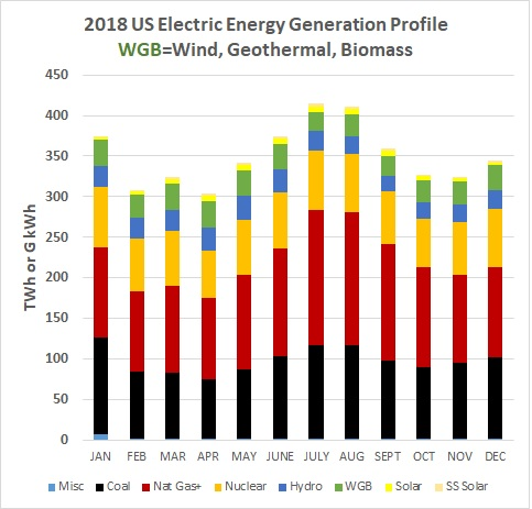 2018 Electric Energy Generation Profile